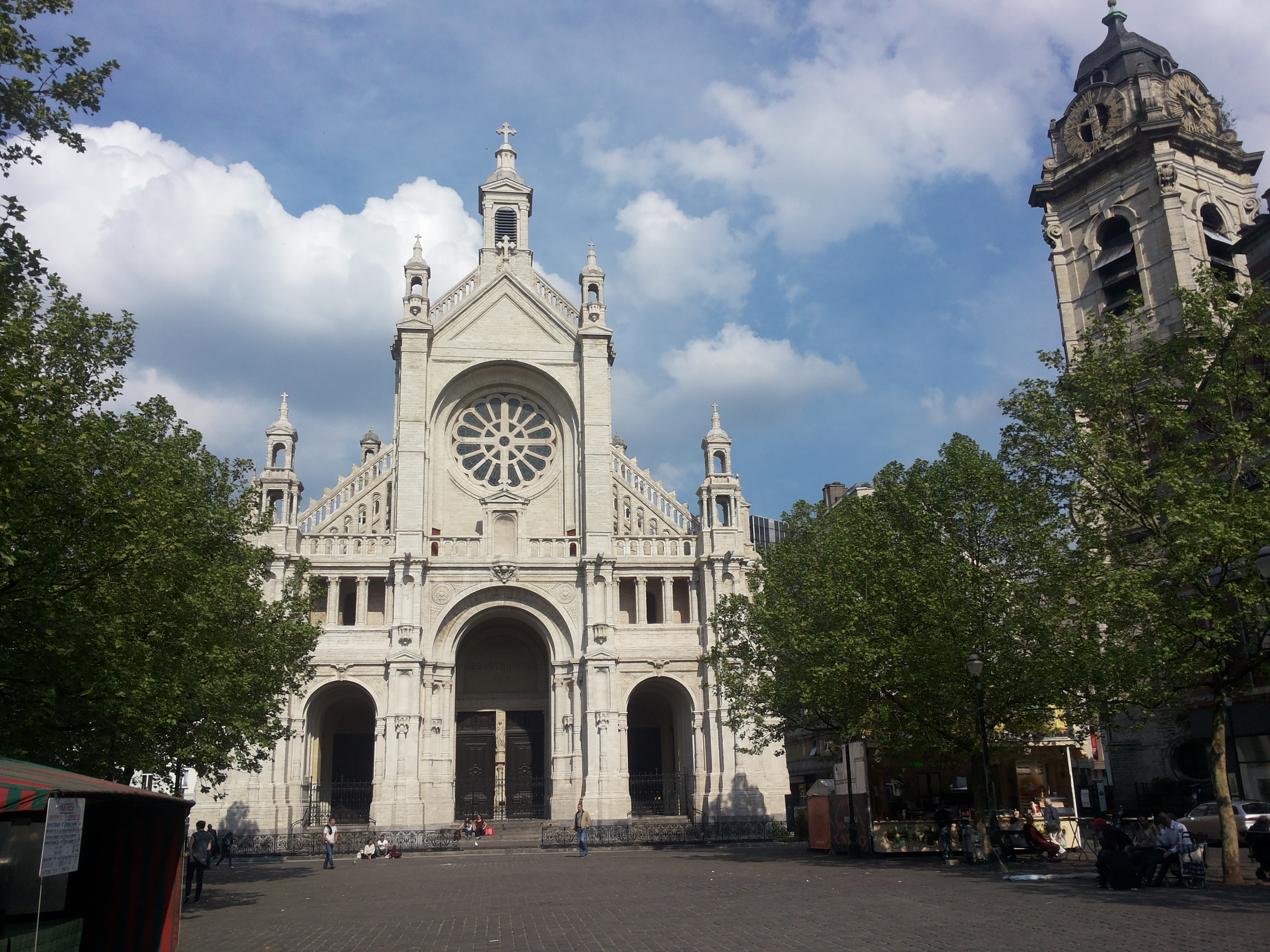 Saint Catherine Church, Brussels, Belgium